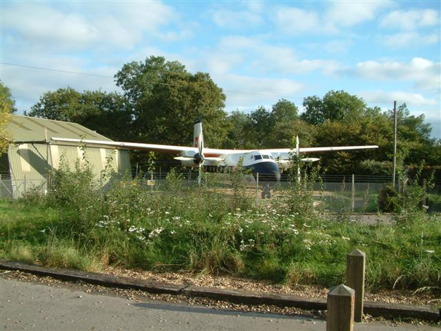 Berkshire Museum of Aviation. Berkshire Museum of Aviation - located in Bader Way, on what used to be Woodley Aerodrome. It was here that Douglas Bader crashed, was subsequently taken to Reading Berkshire Hospital, and lost both his legs. The aircraft is a Handley Page Herald, from what was British European Airways (BEA).